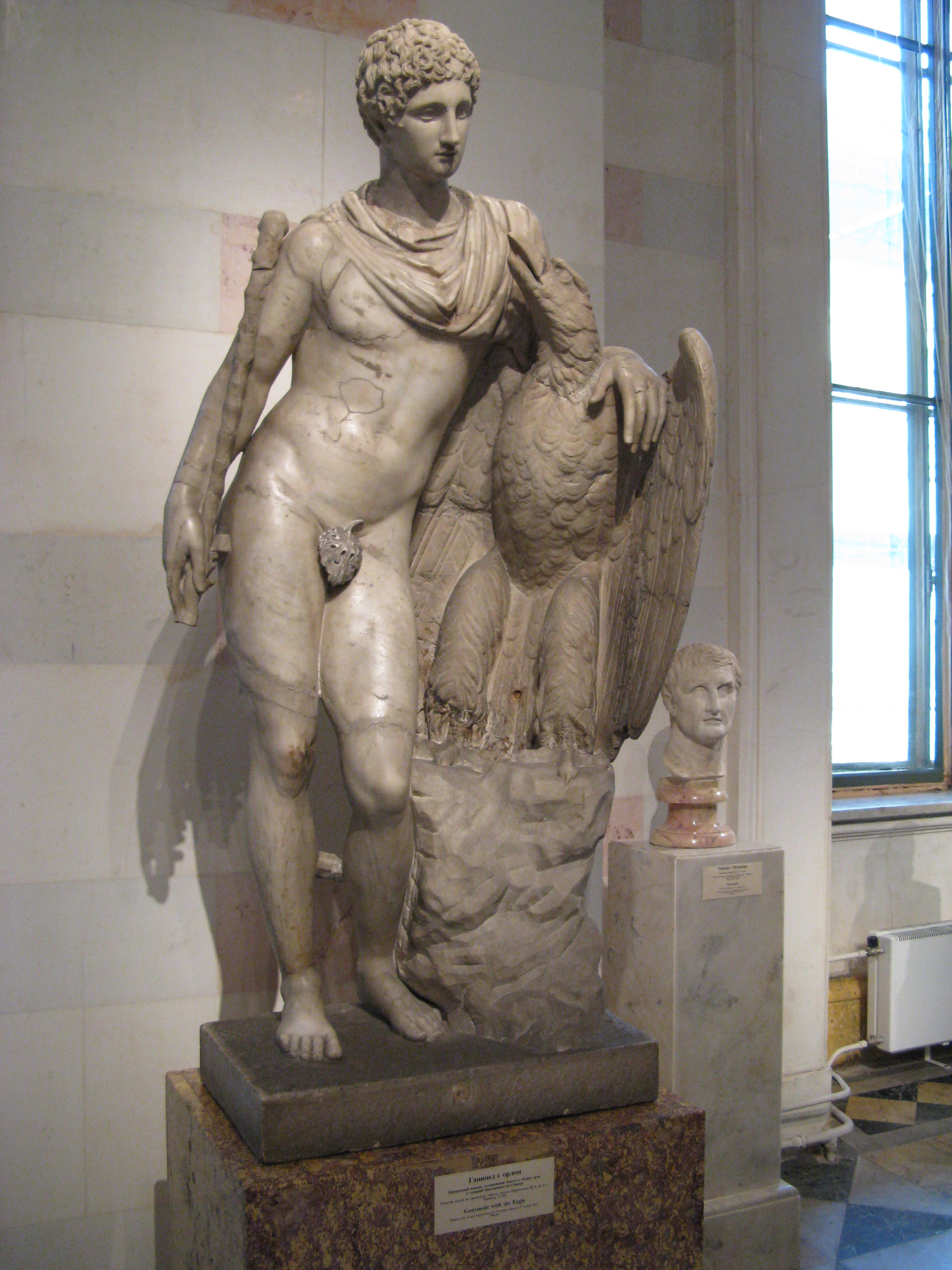 Ganymede with the Eagle at the Hermitage. Roman copy from a Greek original. Ancient Rome. 2nd century. Marble. Height 160 cm. Entered in 1928 from Princes Yusupov collection.